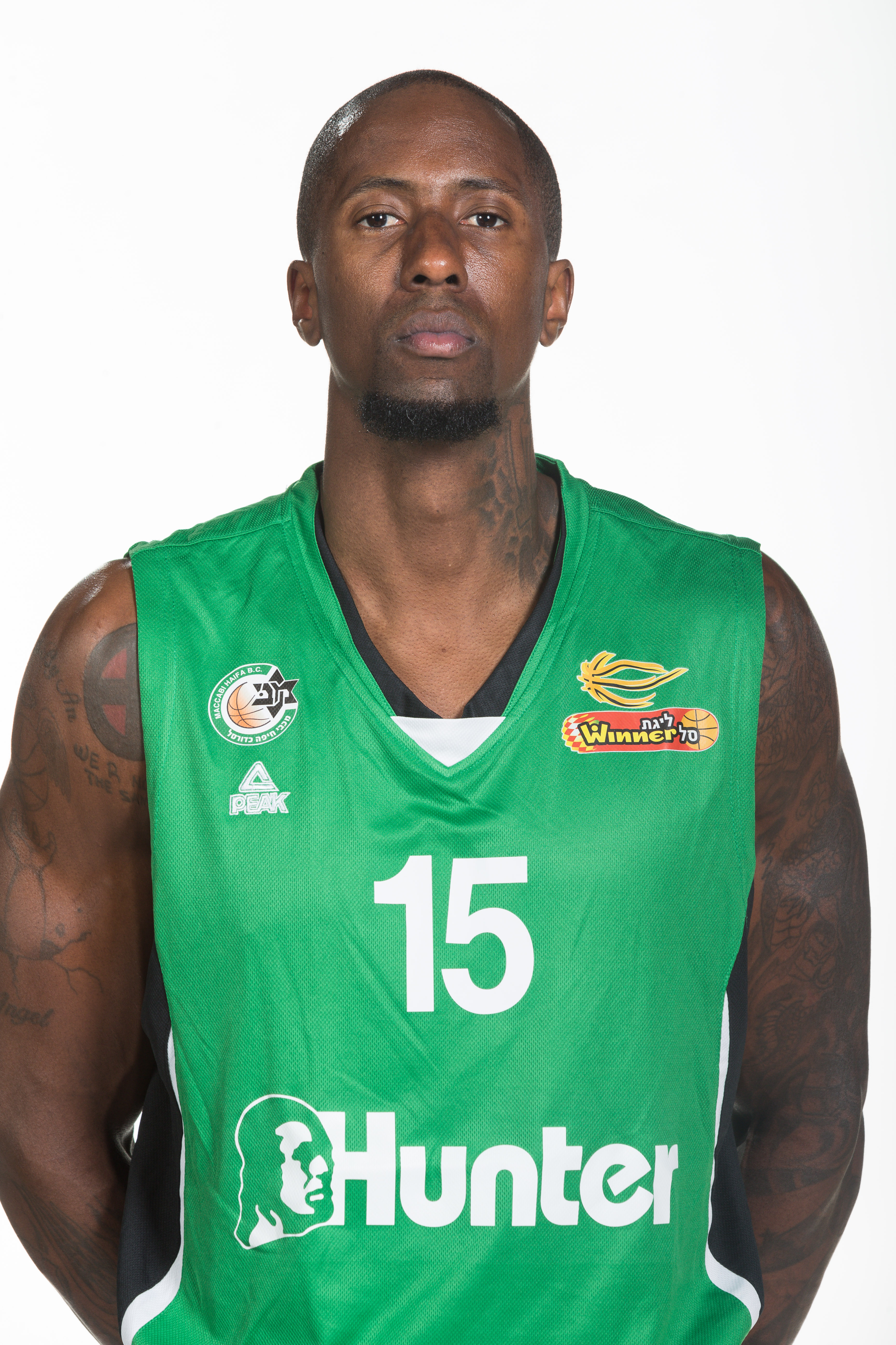 profile picture